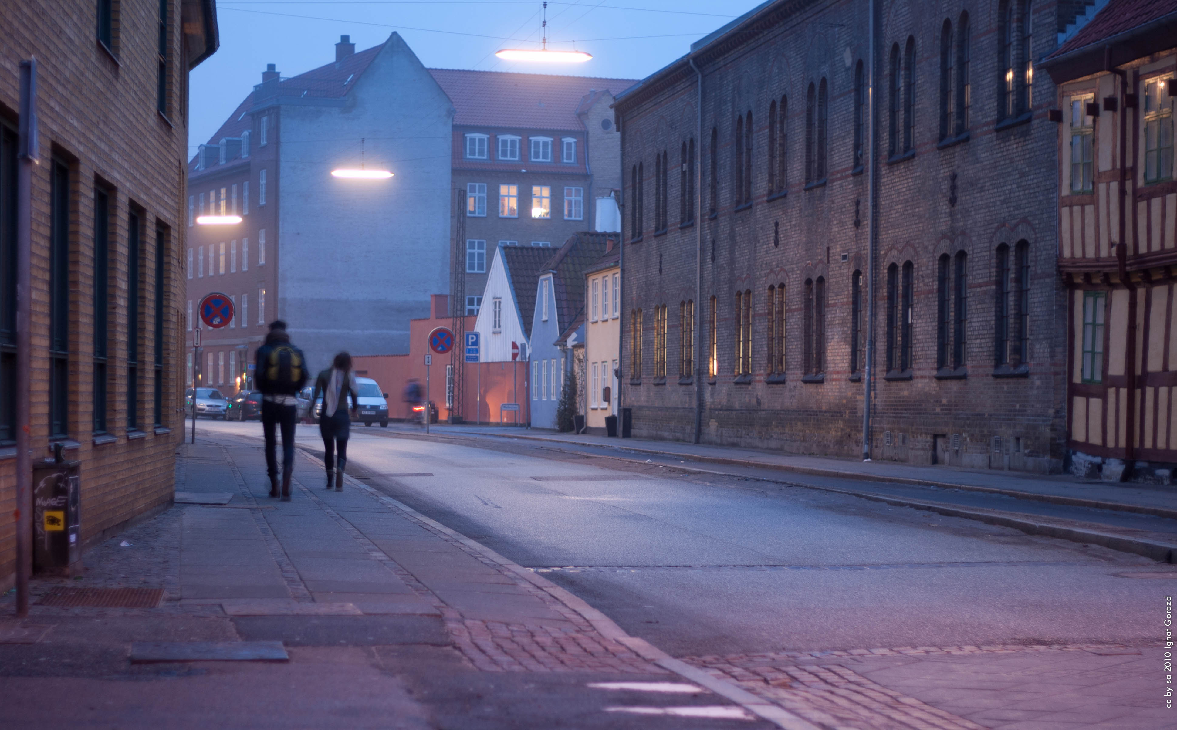 Aarhus street by night